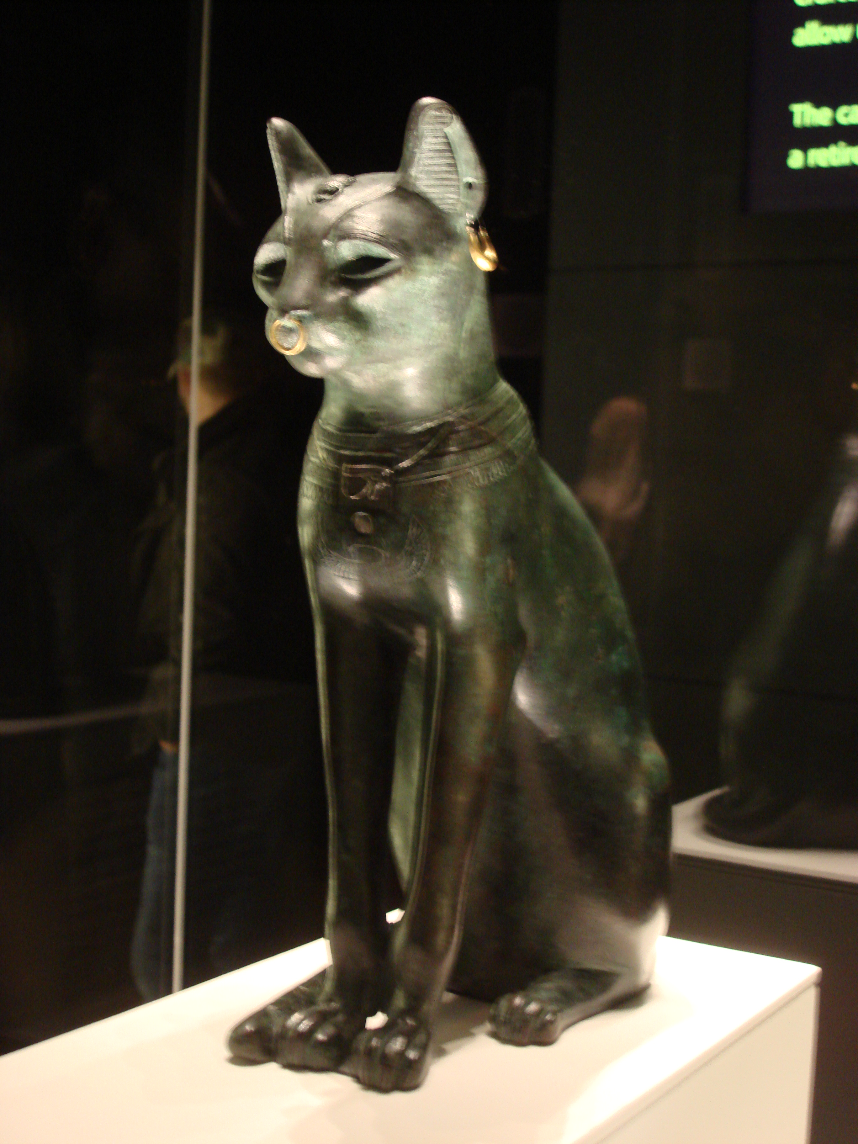 Gayer-Anderson Cat; Made out of bronze, from the Late Period about 664-332 BC. It is a representation of the cat-goddess Bastet. The cat wears jewellery and a protective wedjat amulet. A winged scarab appears on the chest and head. This sculpture is now known as the Gayer-Anderson cat, after its donor to The British Museum.